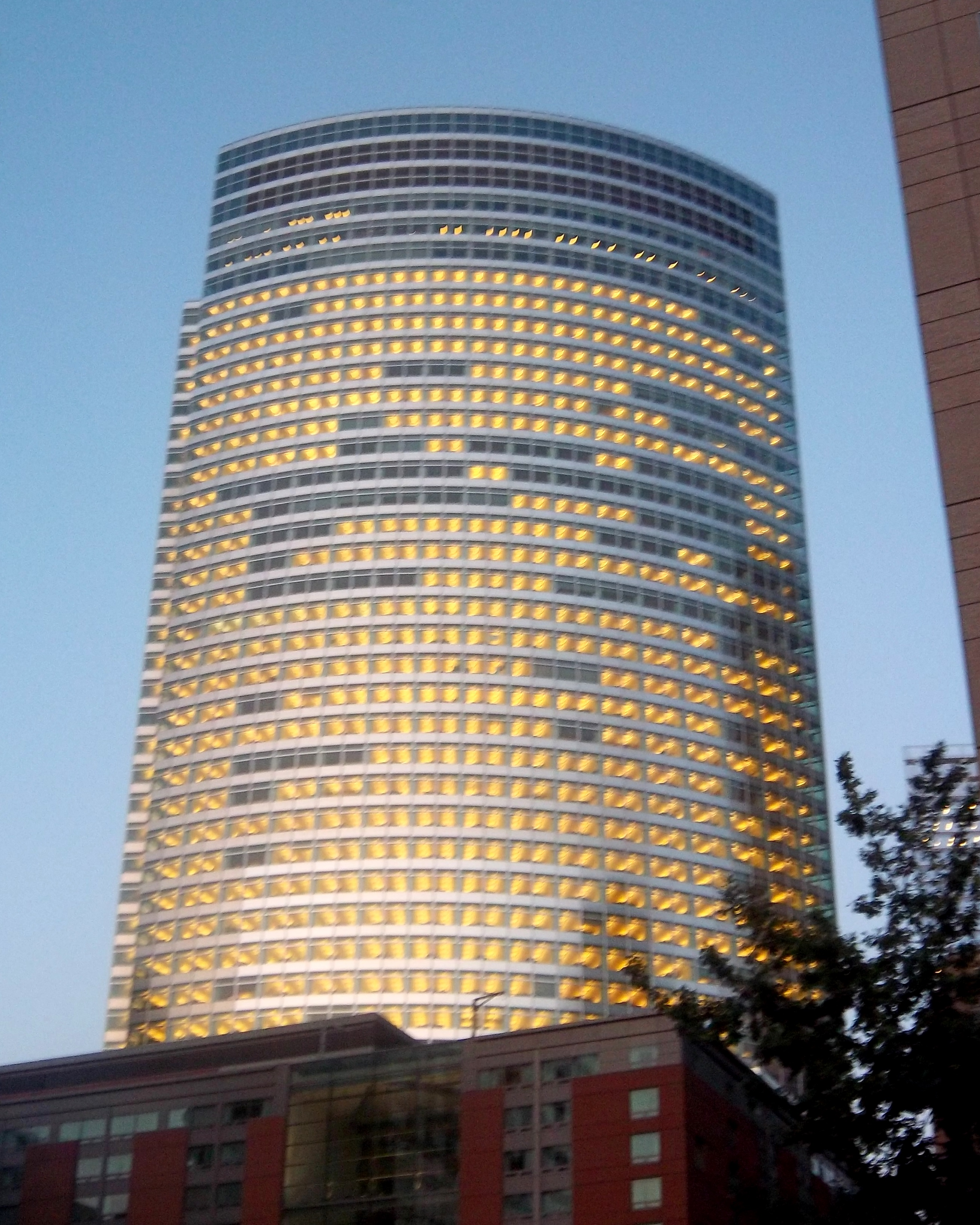 my picture taken on trip in 2010